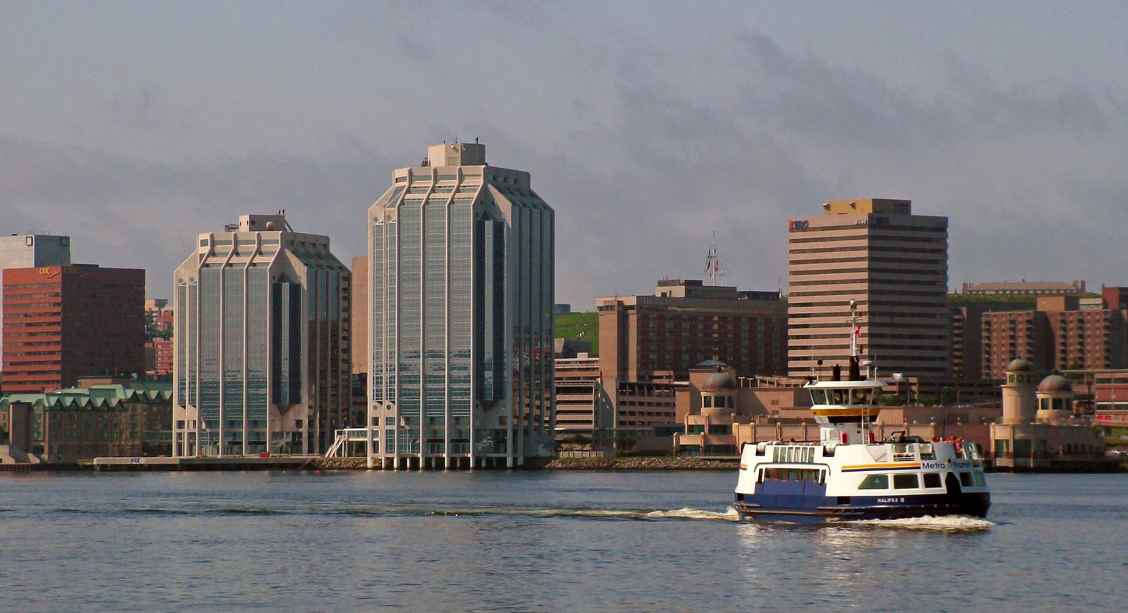 View toward halifax, Nova Scotia as the ferry returns to Dartmouth Widescreen Stuff